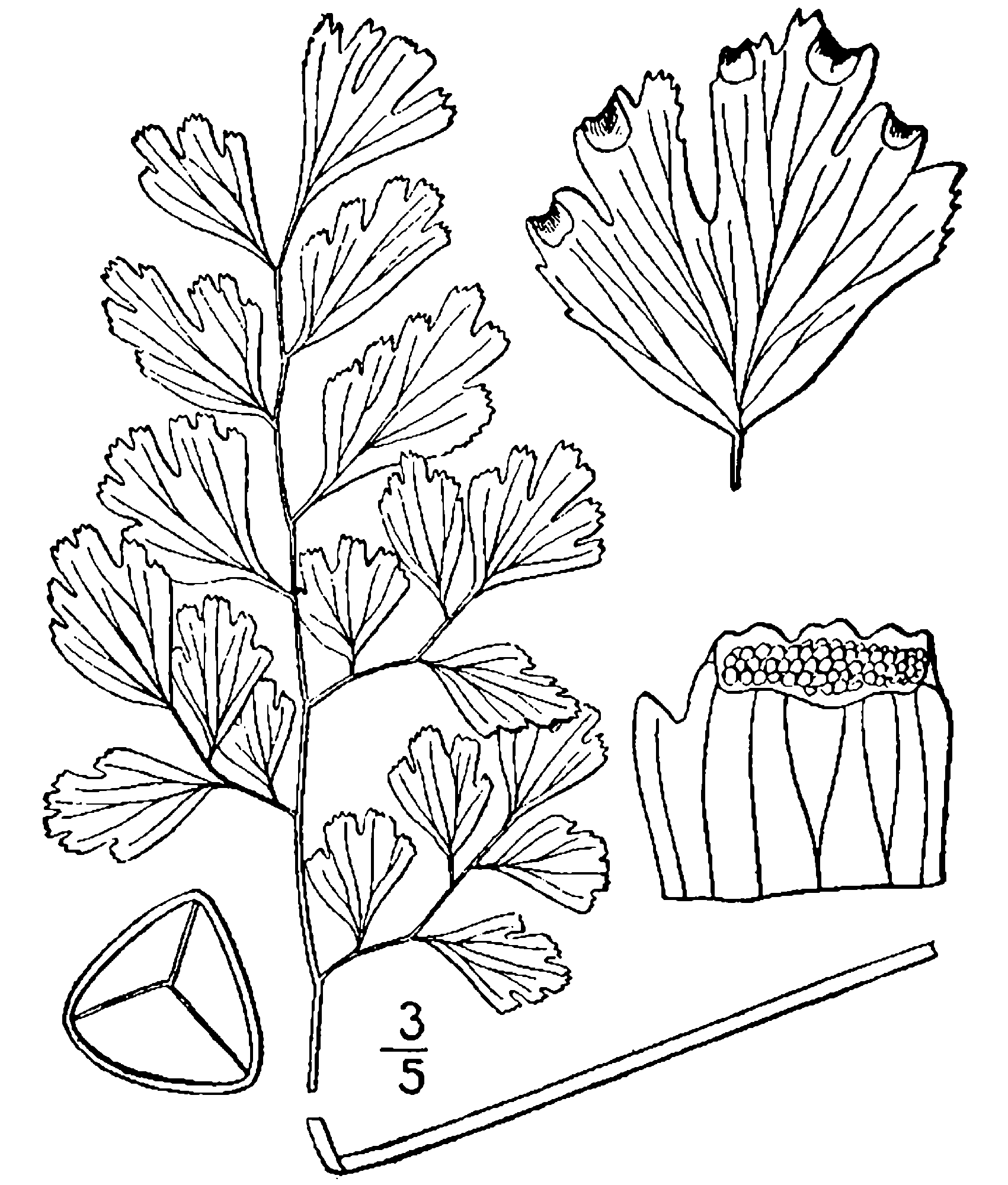 Common Maidenhair. Drawing.